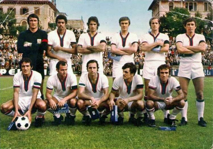 Perugia, Santa Giuliana Stadium, August 30, 1972. A line-up of Cagliari Calcio took to the field in the away victory versus A.C. Perugia (2-0), valid for the 2nd round of the 1972–73 Coppa Italia group stage.